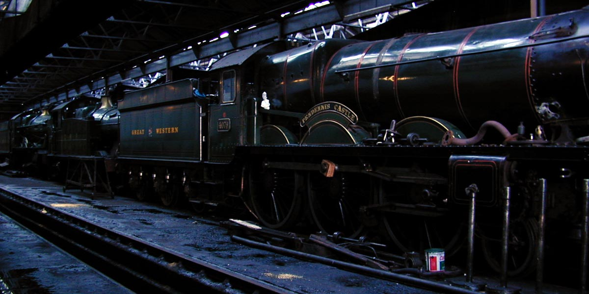 Pendennis Castle dark in the shed at Didcot Railway Centre. Taken 2001/12 by William M. Connolley with a coolpix 950.